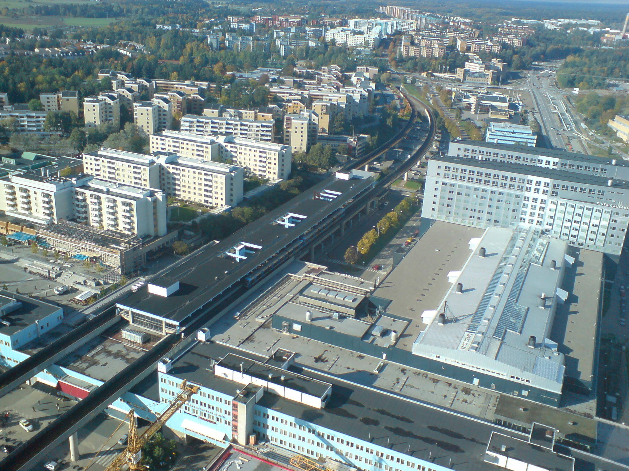 Central Kista in Stockholm